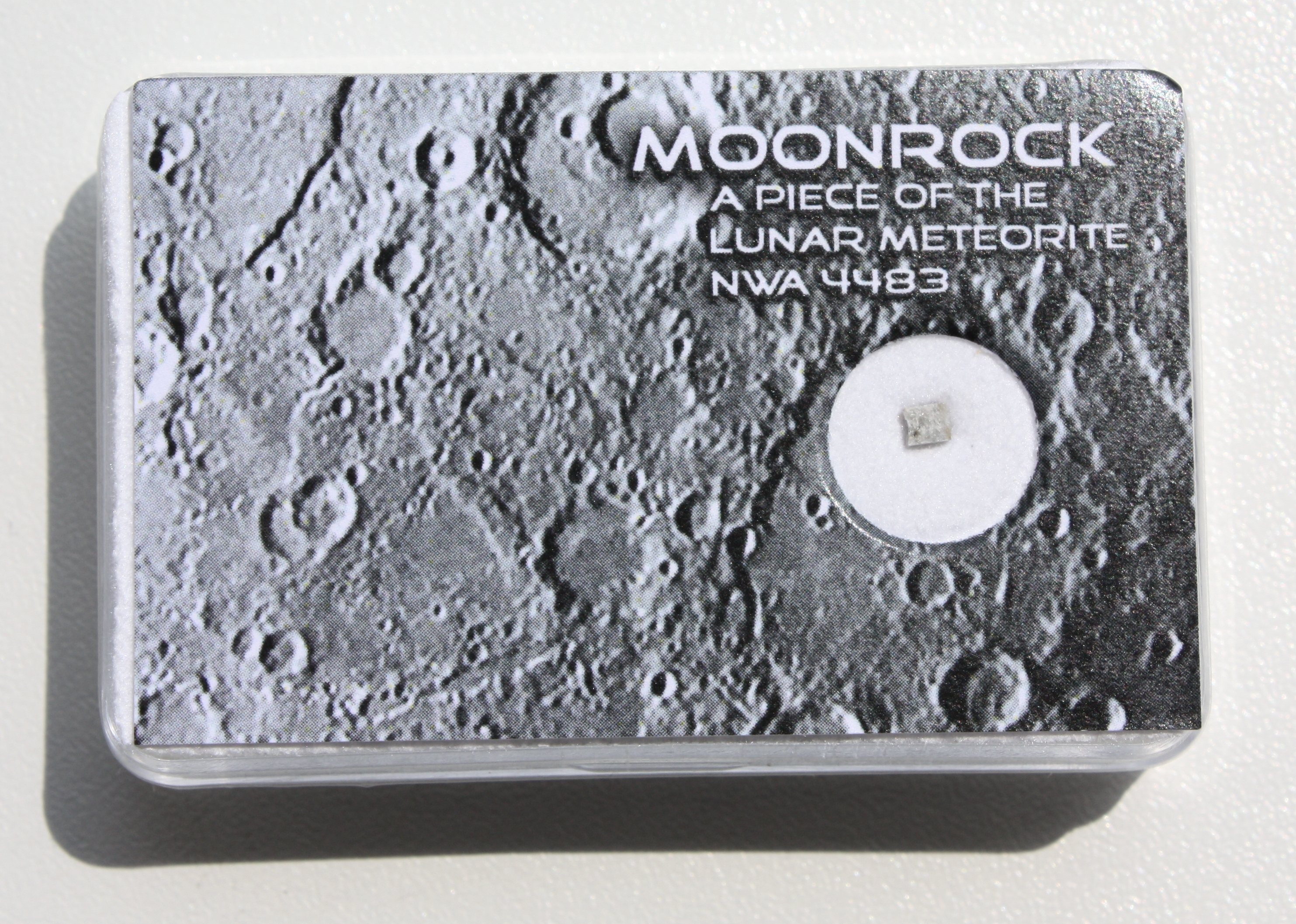 A privately owned 11 mg (c. 2.2×2.0 mm) piece of the lunar meteorite NWA (North West Africa) 4483. Identity guaranteed by the International Meteorite Collectors Association.